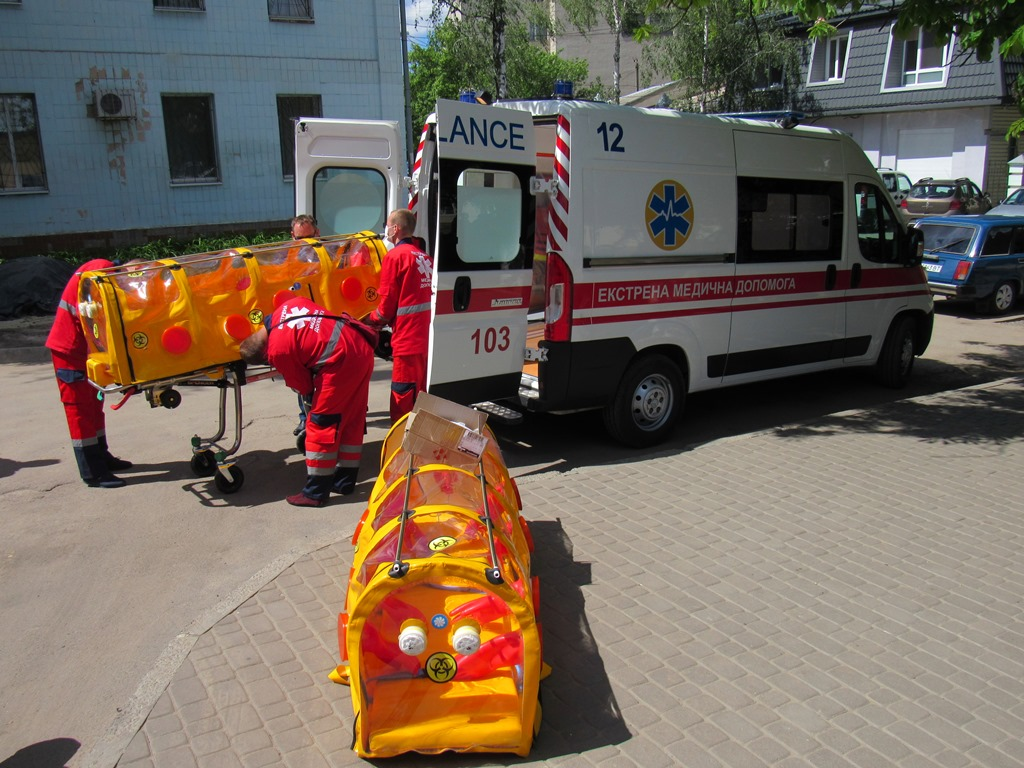 Supply of isolated capsules for transportation of infected patients to Poltava Regional Center for Emergency Care and Disaster Medicine